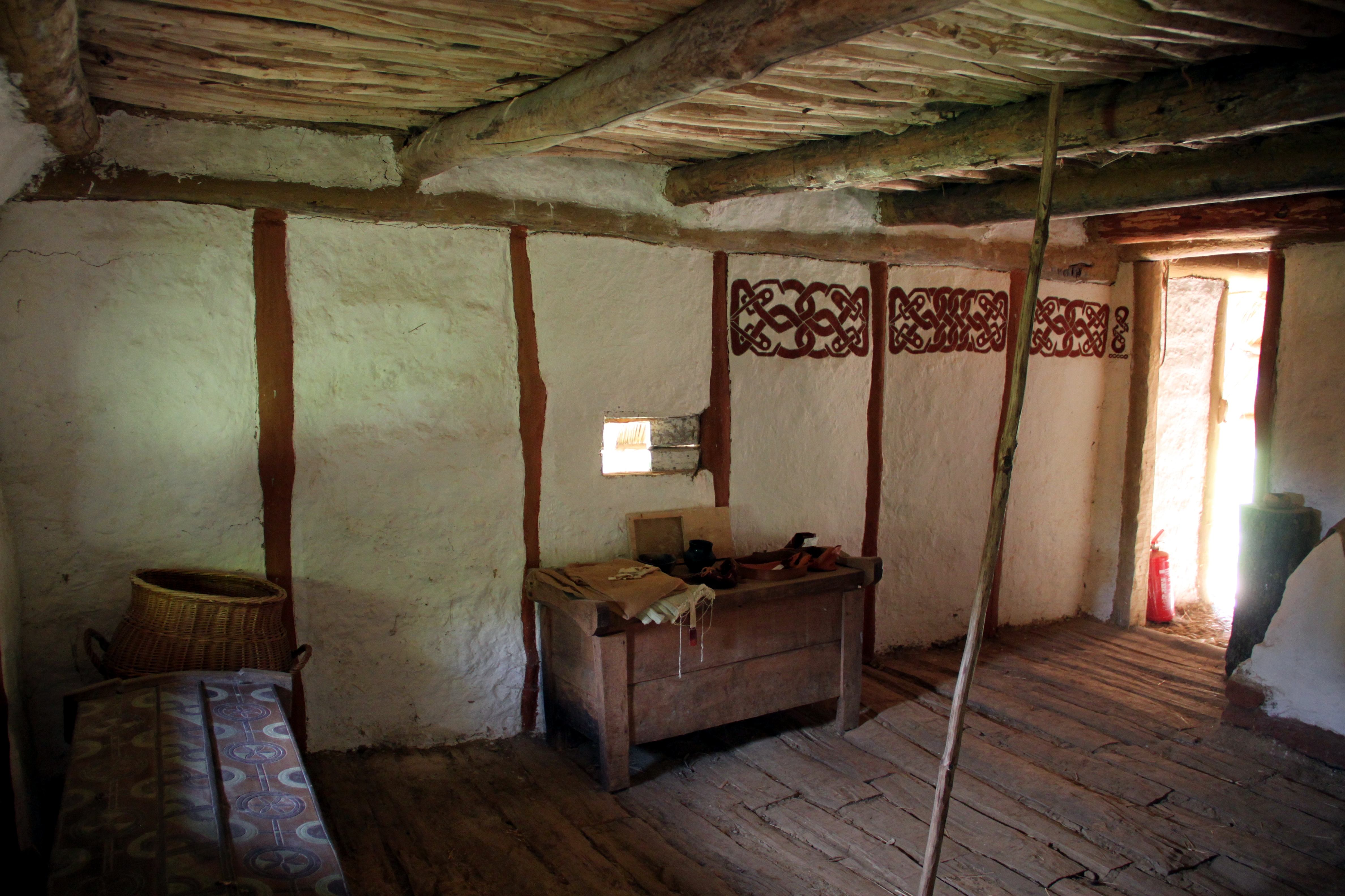 Bajuwarenhof Kirchheim: best room of the longhouse.